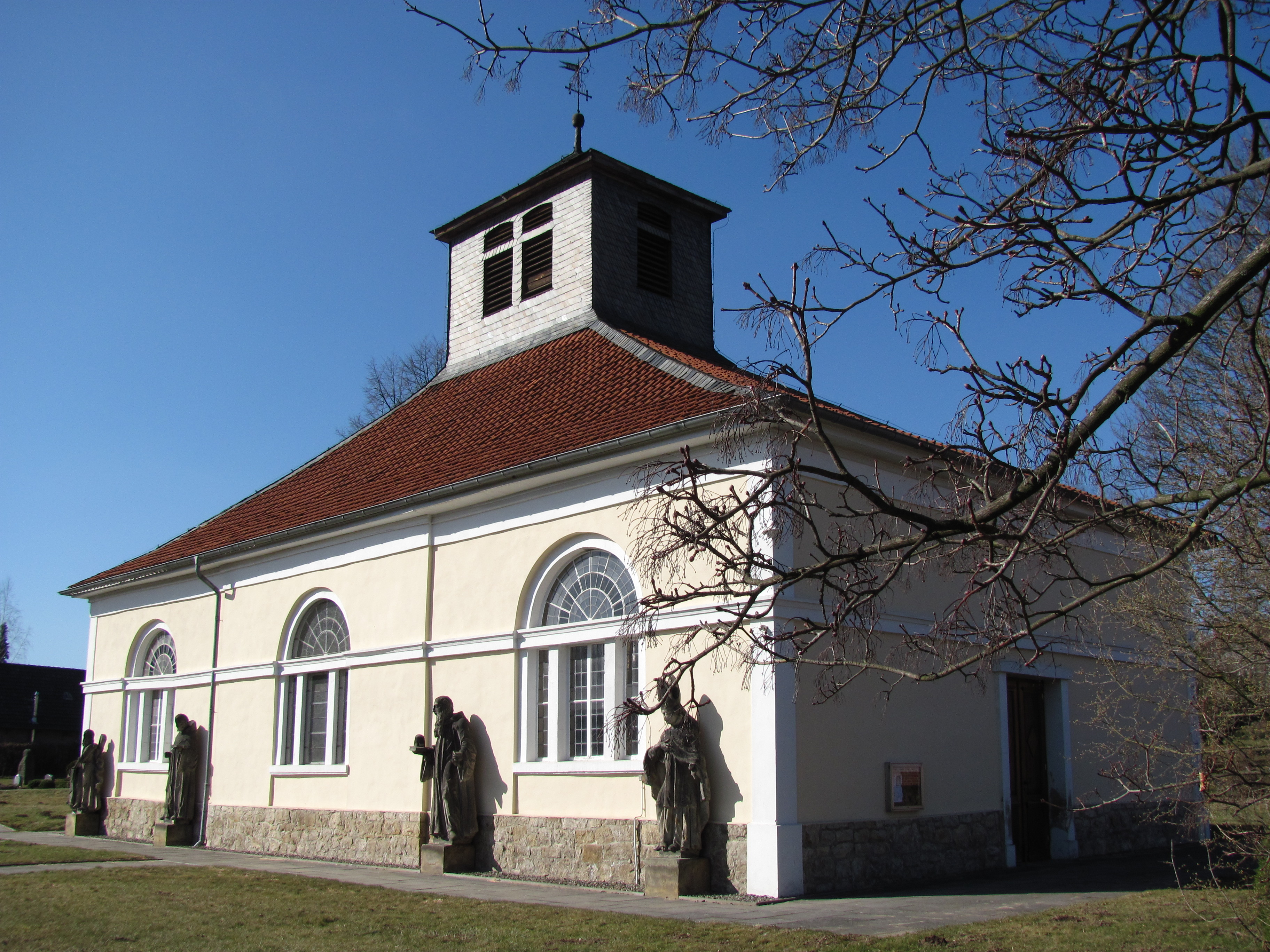 St. Andrew's Catholic Church (1816-1818), Holle-Sottrum, Lower Saxony, Germany.